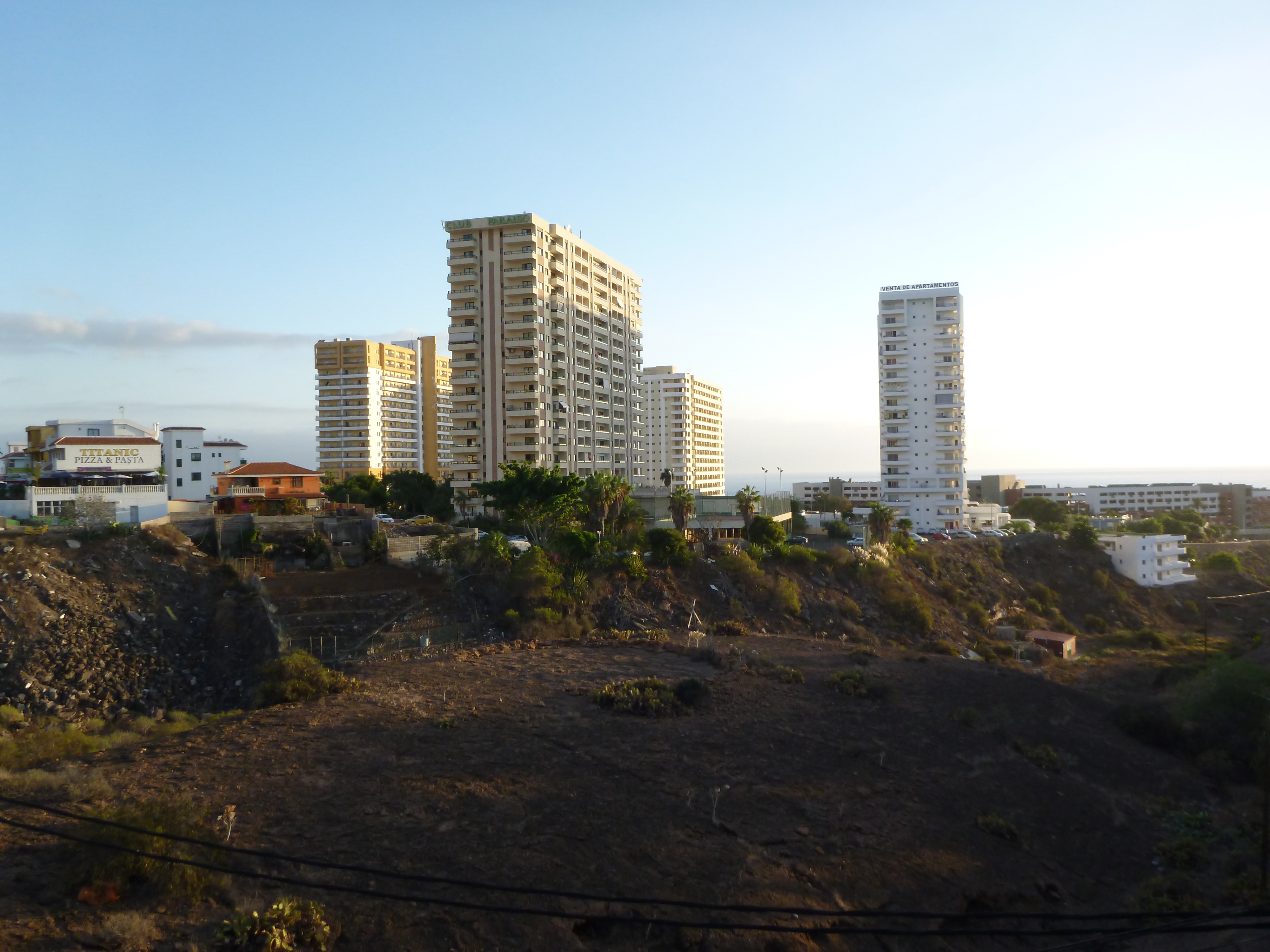 Overview Playa Paraíso